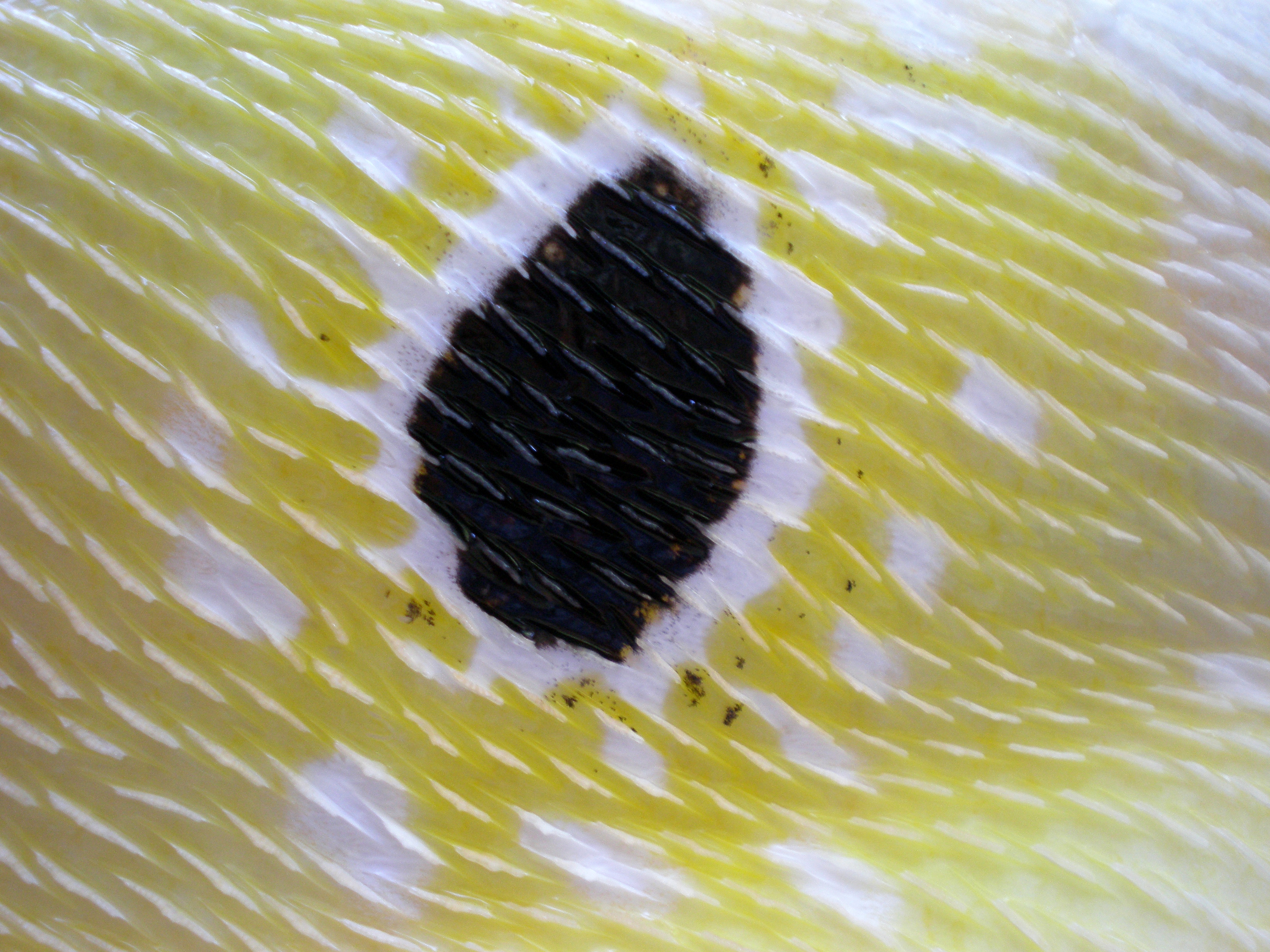 Triodon macropterus. Detail of black spot. Locality: Off Récif Toombo, off Nouméa, New Caledonia, depth 200-350 m, 22°34' 565S, 166°27'636E. Fork Length 361 mm, Weight 689 grams. Date 2009-07-02.